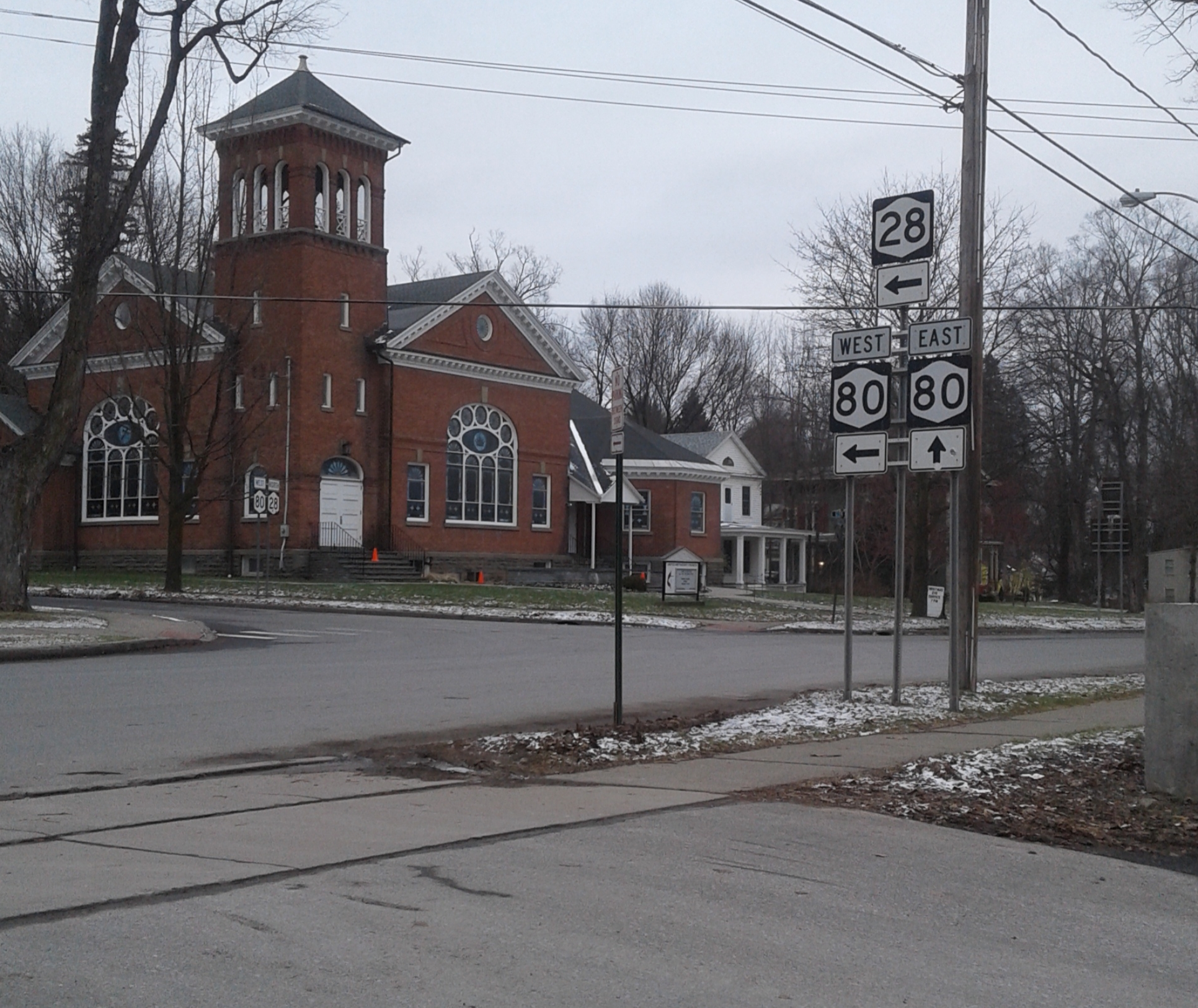 Shields at eastern end of New York State Route 80 and New York State Route 28 concurrency in Cooperstown, New York in December 2018